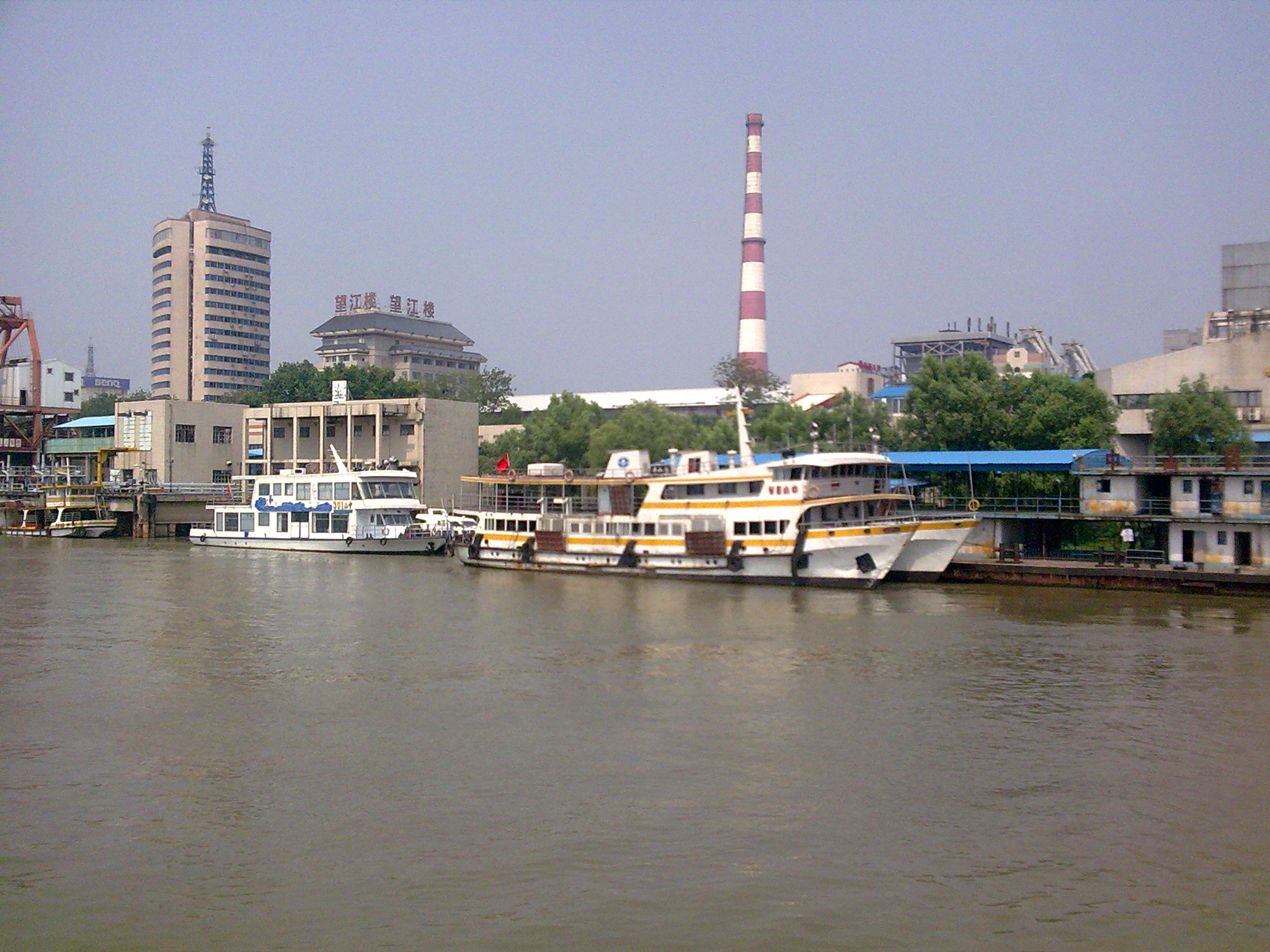 Zhongshan Wharf， Nanjing, China